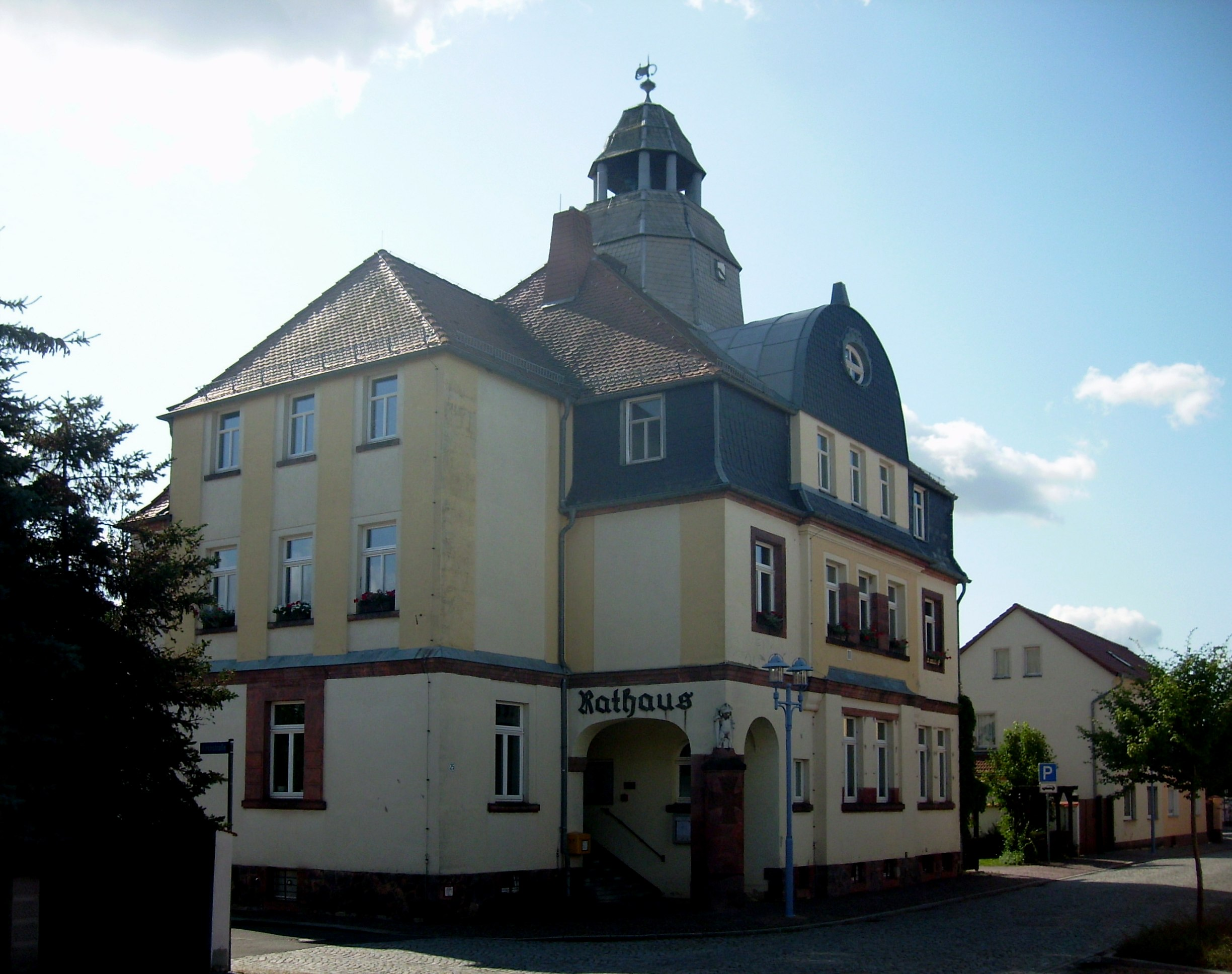 Town hall in Regis-Breitingen (Leipzig district, Saxony)